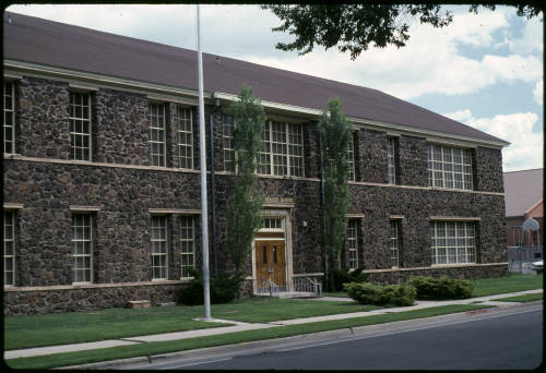 South Beaver Elementary, 1985